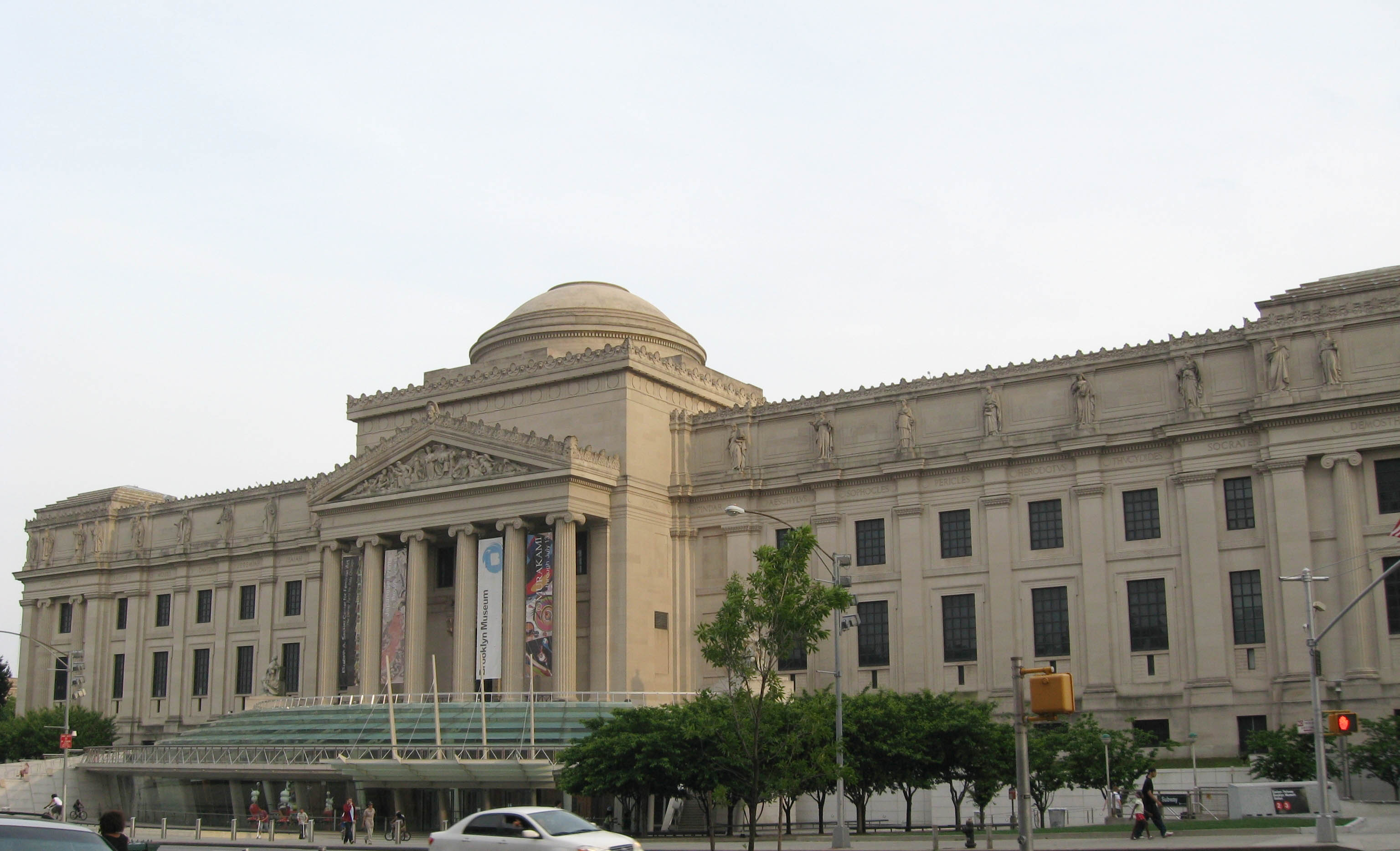 Brooklyn Museum shortly before sunset on a partly cloudy day.